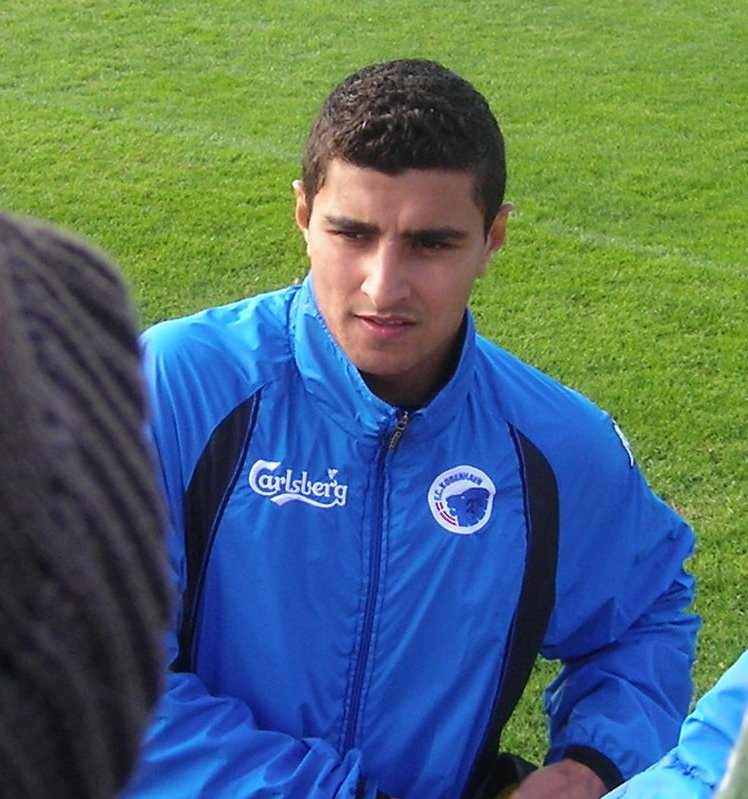 Ailton Almeida of FC Copenhagen